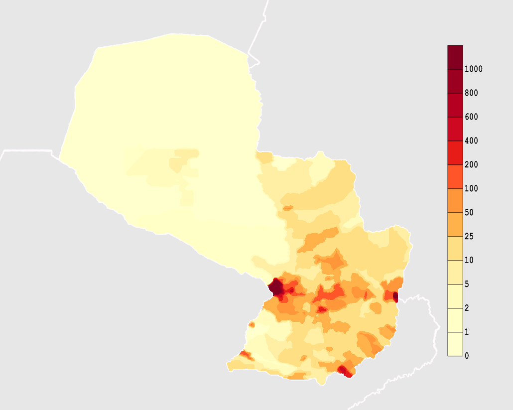 Paraguay population density (2010 estimate) Data